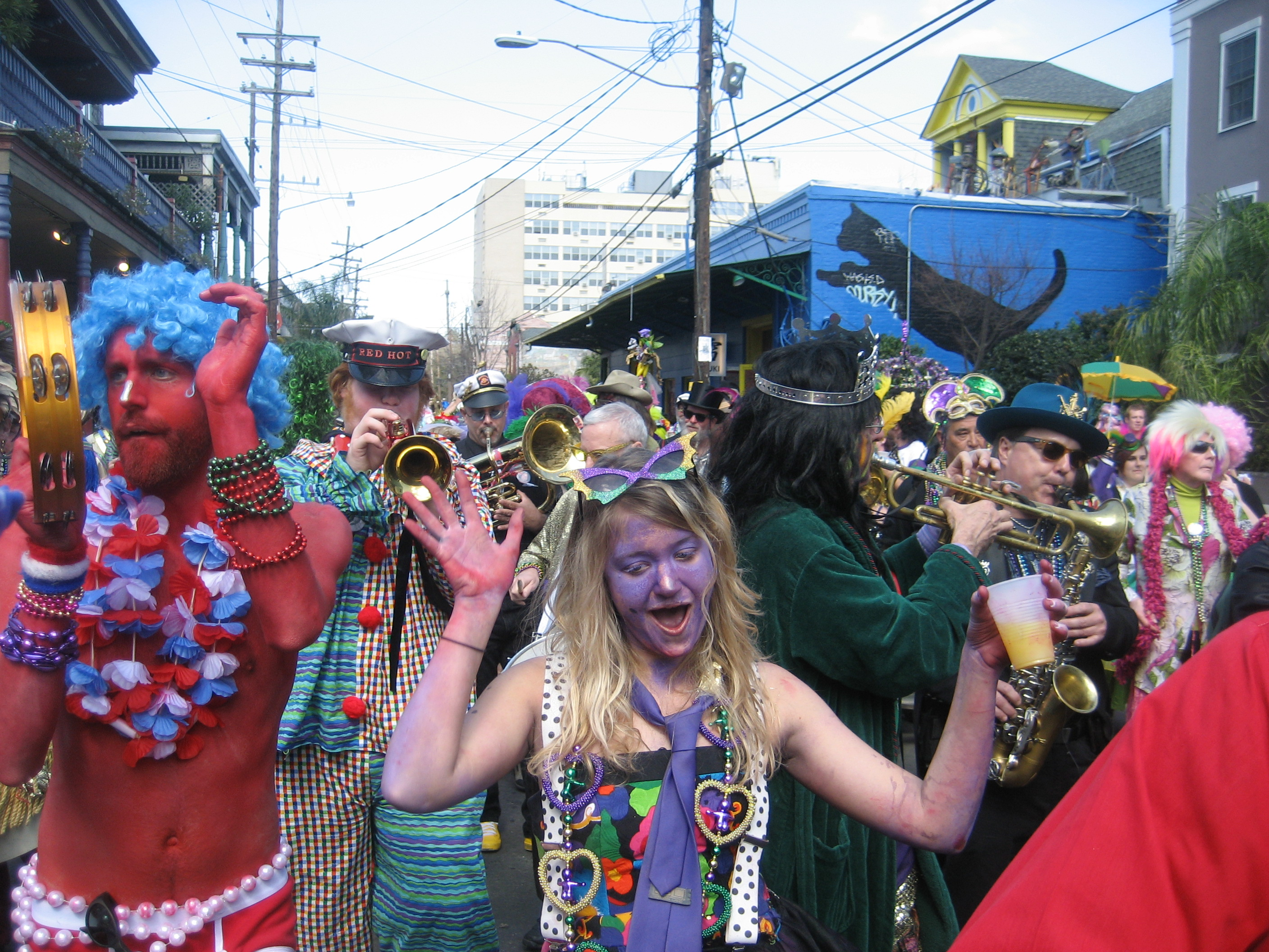 Mardi Gras Day, New Orleans: Krewe of Kosmic Debris revelers on Frenchmen Street